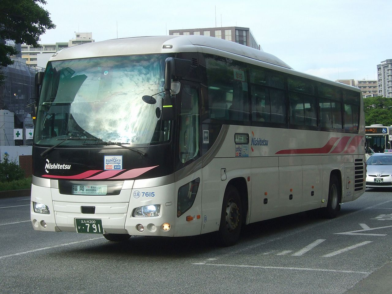 Nishitetsu Expressway Bus "Fukufuku-go". Company:Nishitetsu Bus Kitakyushu Use:transit bus (highway bus) Car license:FOK200 KA 791 Belongs to:Kitakyushu Kousoku Depot Code:7615 Chassis manufacturer:Hino Motors Type:Selega Coachbuilder:J-BUS Location:In Chuo Ward, Fukuoka City, Fukuoka, Japan.